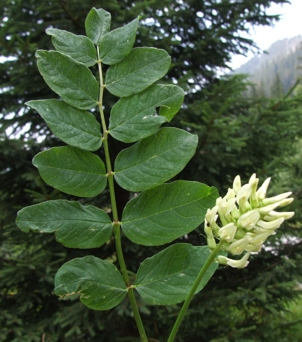 Astragalus glycyphyllos (pl. traganek szerokolistny), habitat: Dolina Spalona, West Tatra Mountains